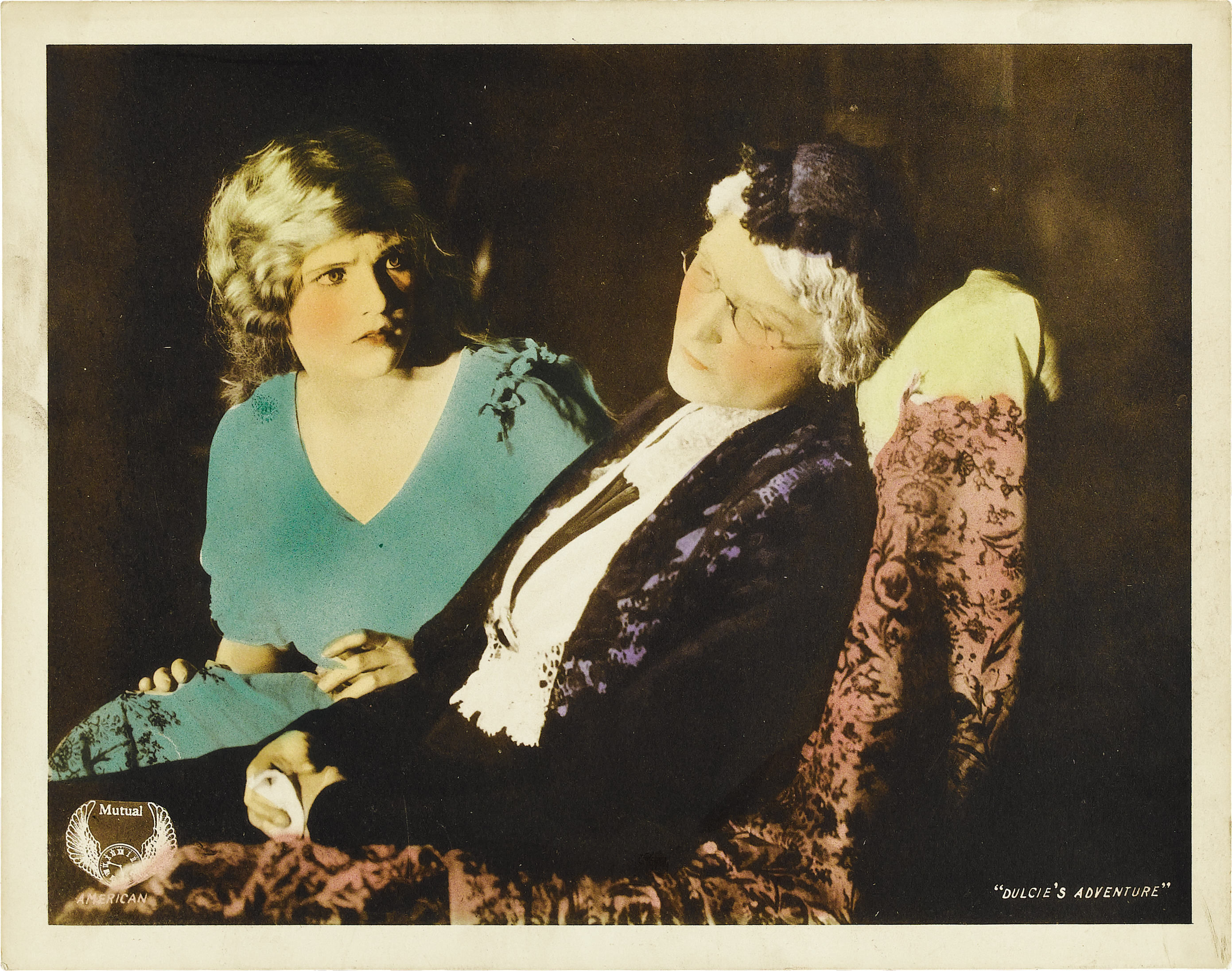 Lobby card for the American drama film Dulcie's Adventure (1916) with Mary Miles Minter and Bessie Banks.